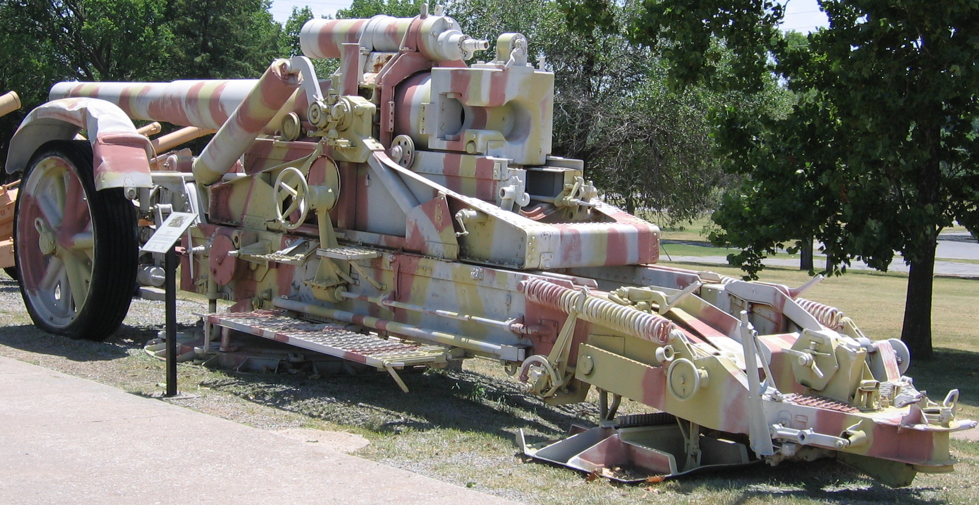 Rear view of German 21cm Mörser 18 at U.S. Army Field Artillery Museum, Ft. Sill, Oklahoma